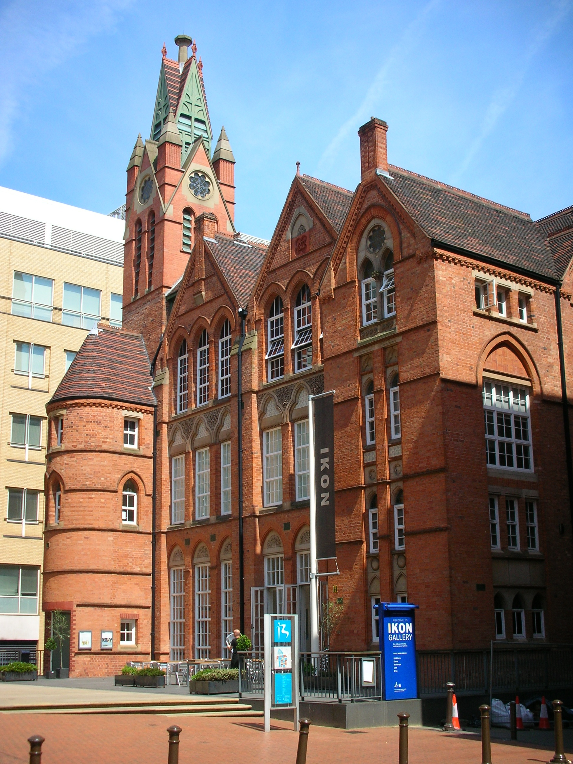 Oozells Street Board School in Birmingham, England. Now the Ikon Gallery and surrounded by Brindleyplace but once surrounded by factories and workshops. Photographed by me 16 June 2006. Oosoom